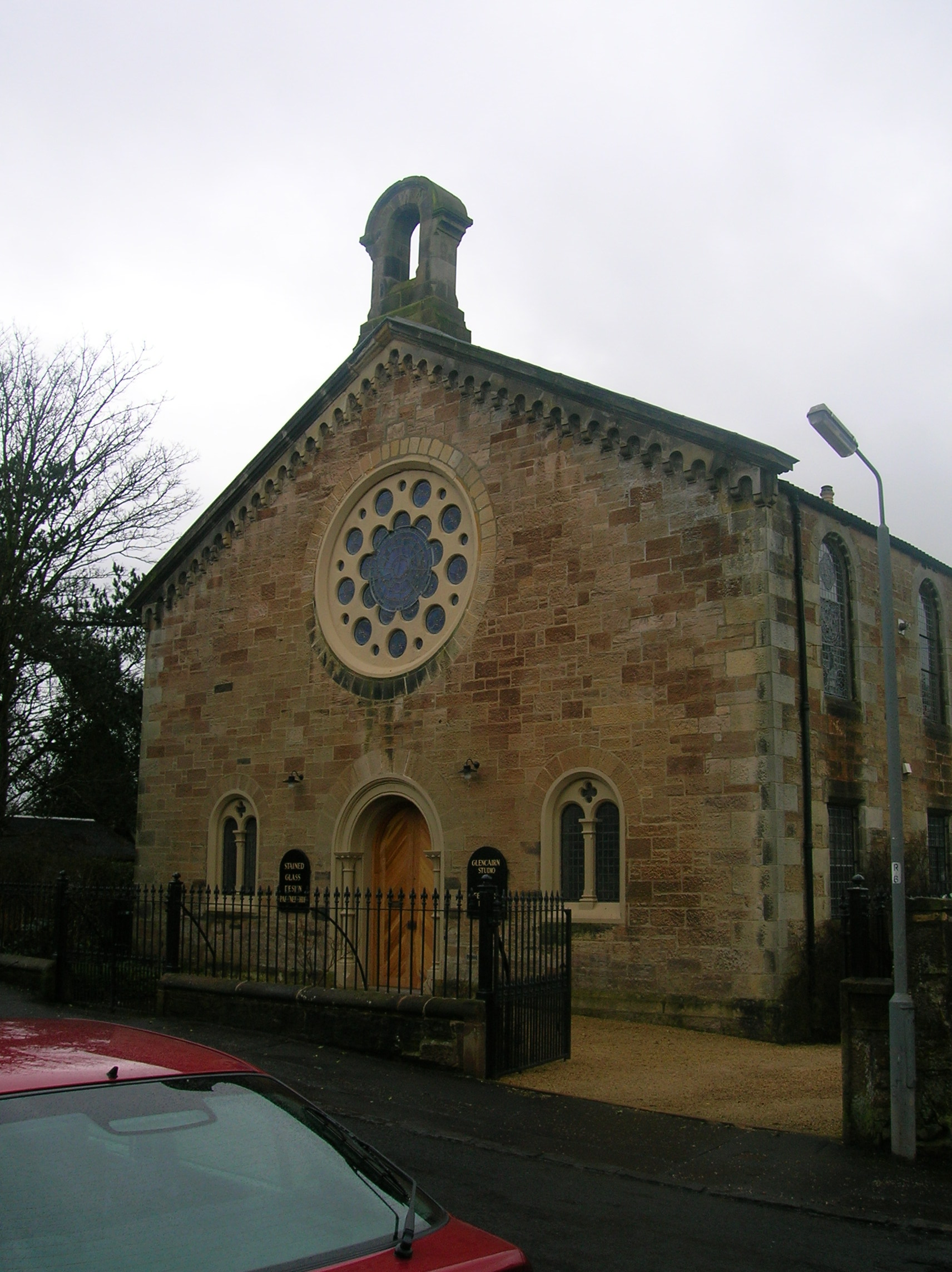 Glencairn, originally the 'Non-lifters' Kirk in Fenwick Road, Kilmaurs, Ayrshire, Scotland. Built 1864.